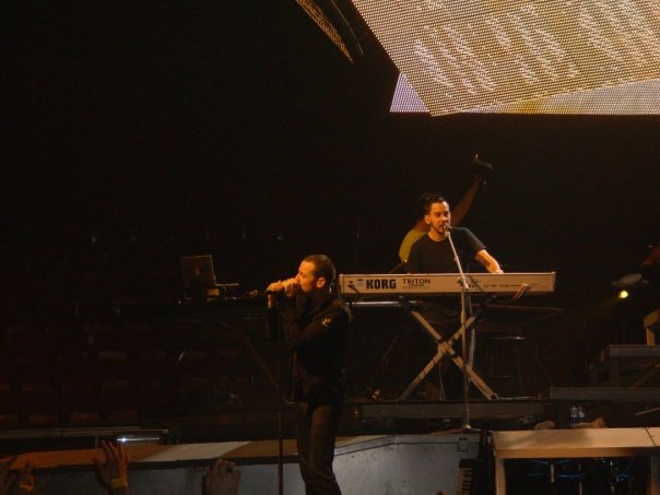 This is a picture of the Linkin Park concert on February 22nd 2008 at Montreal city